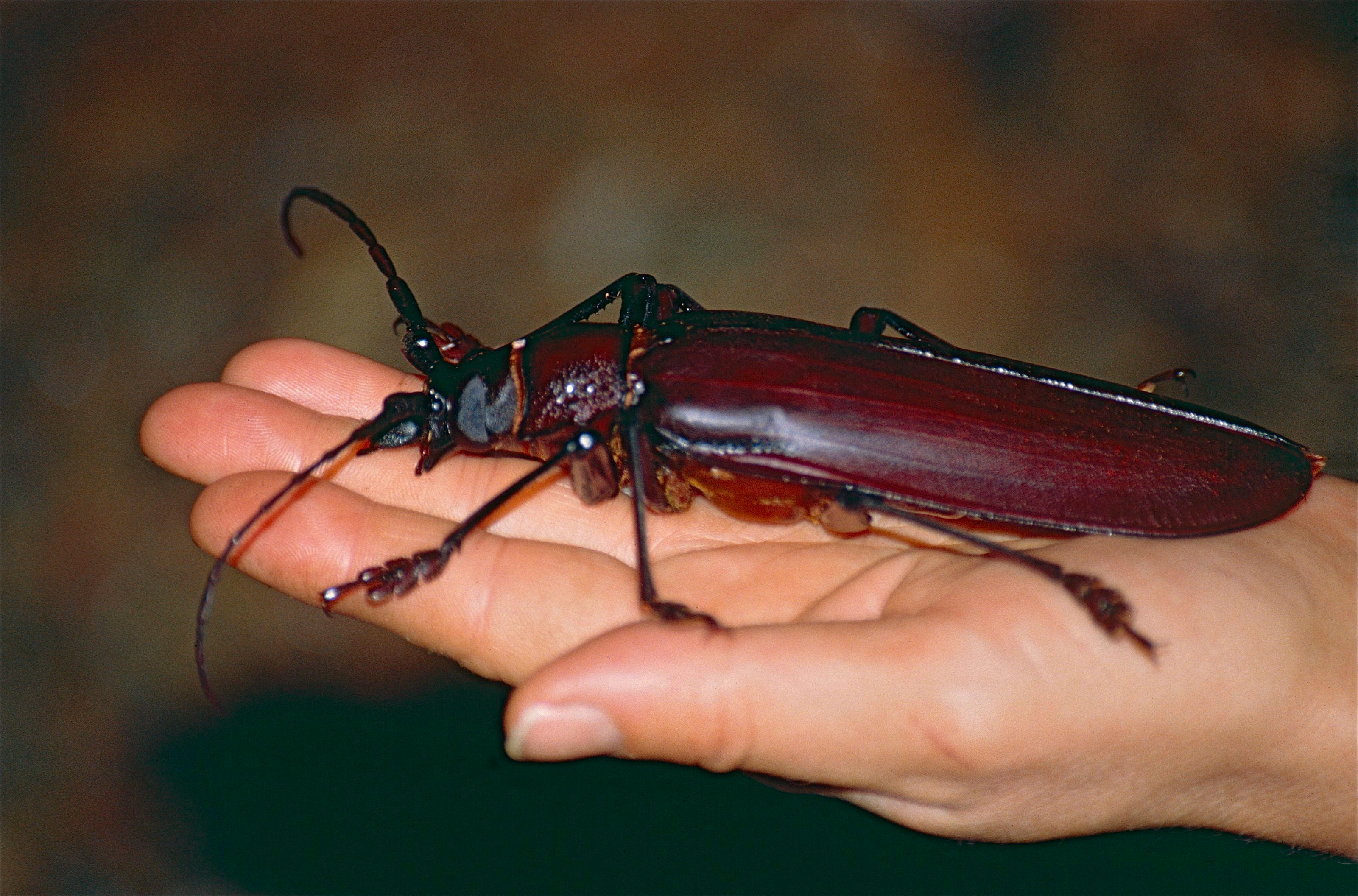 Route de Regina, Guyane, FRANCE Scanned Slide from 2000